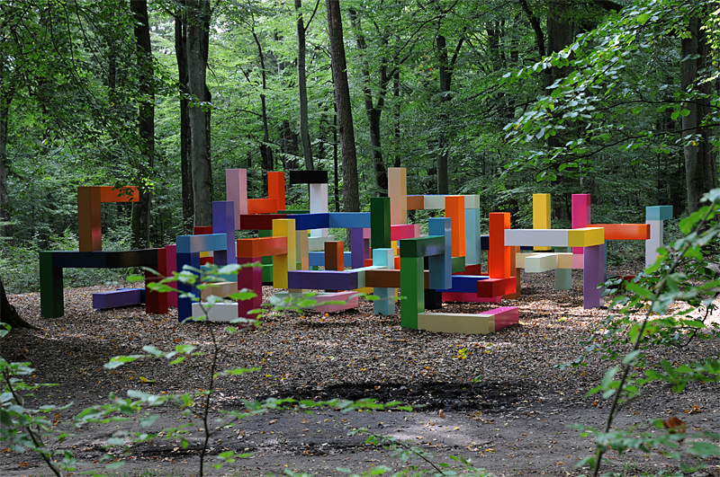 Jacob Dahlgren "Primary Structure", Wanås, Sweden